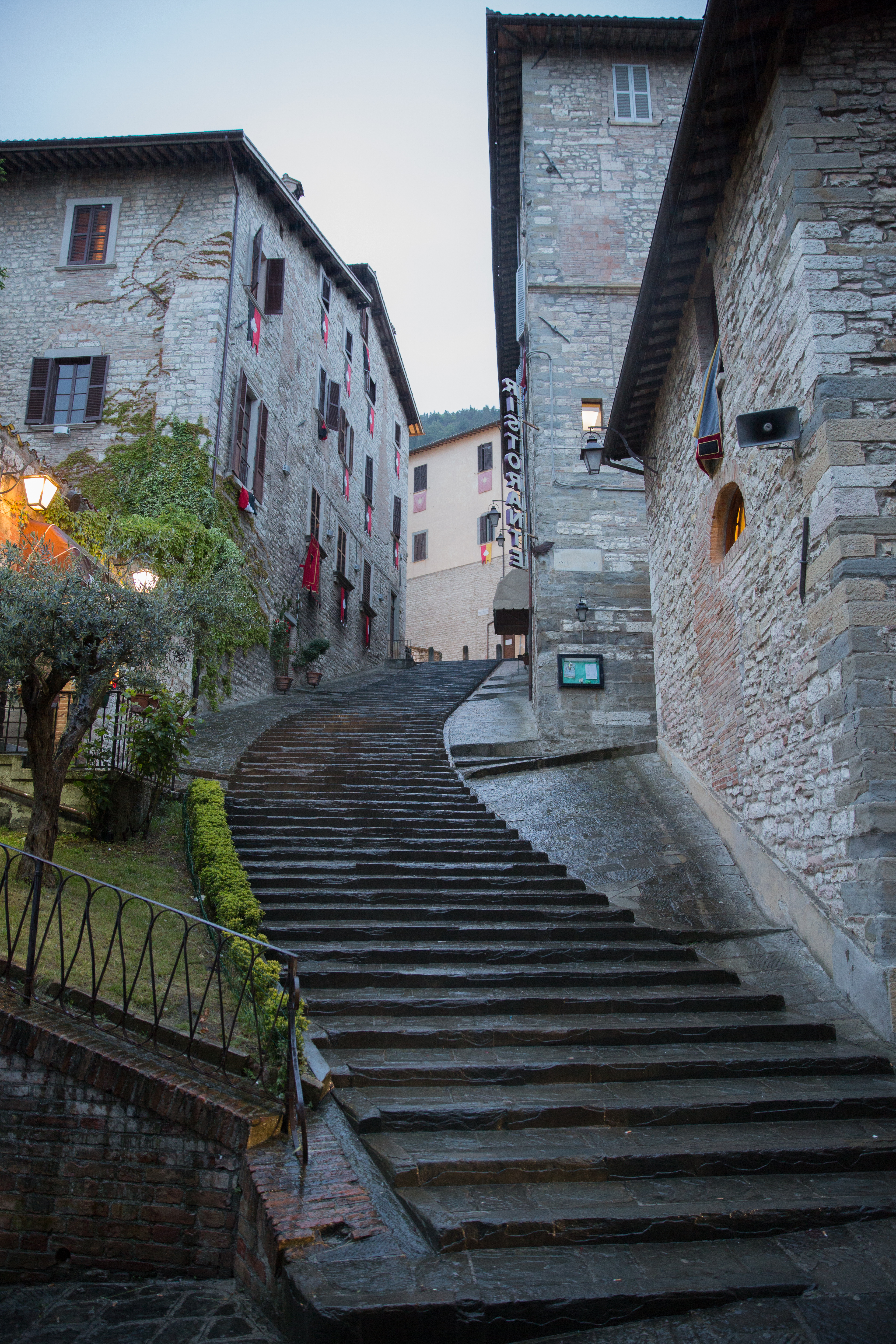 stairs in the historic town